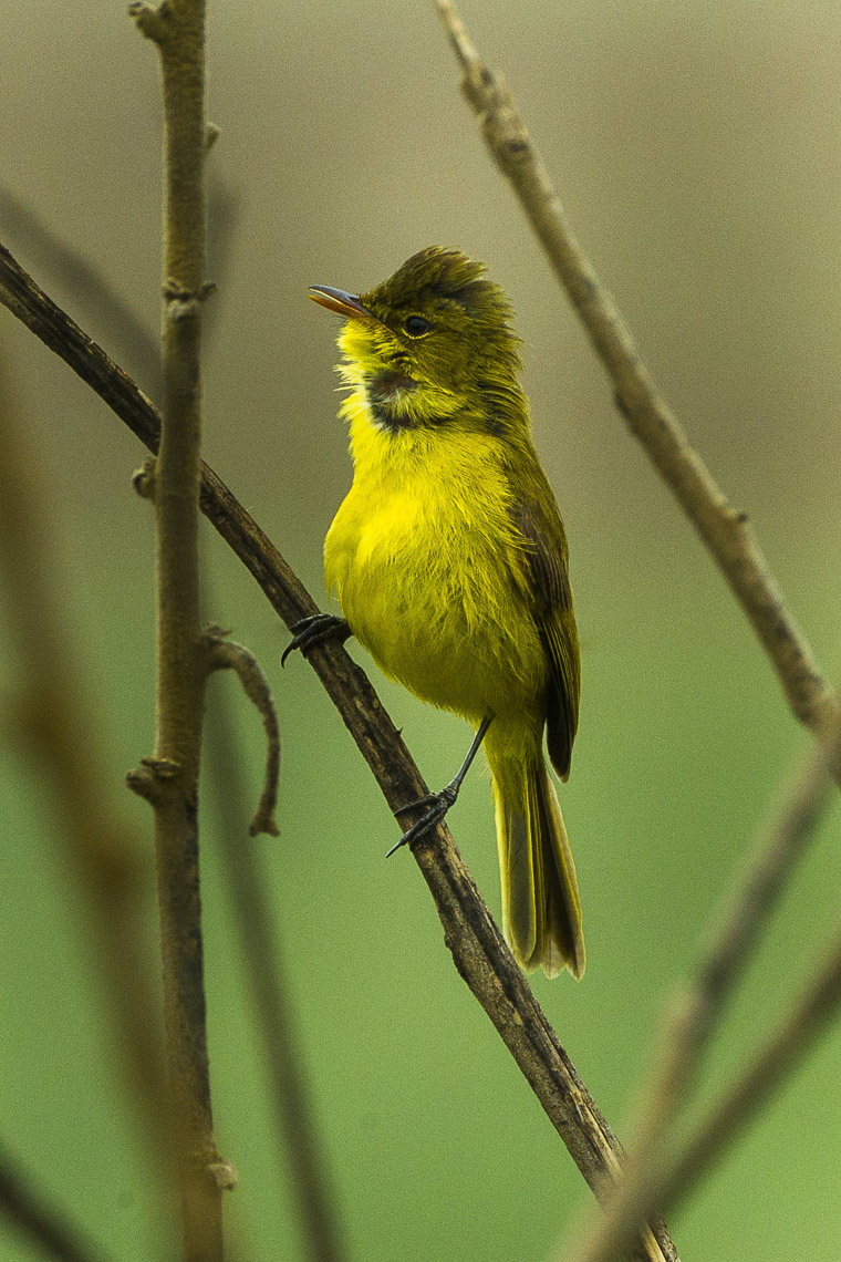 African Yellow Warbler - South Africa_S4E7584